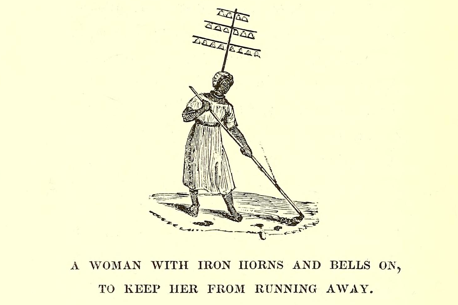 An enslaved woman in the United States of America wearing "iron horns with bells on". Original caption "A woman with iron horns and bells on, to keep her from running away".